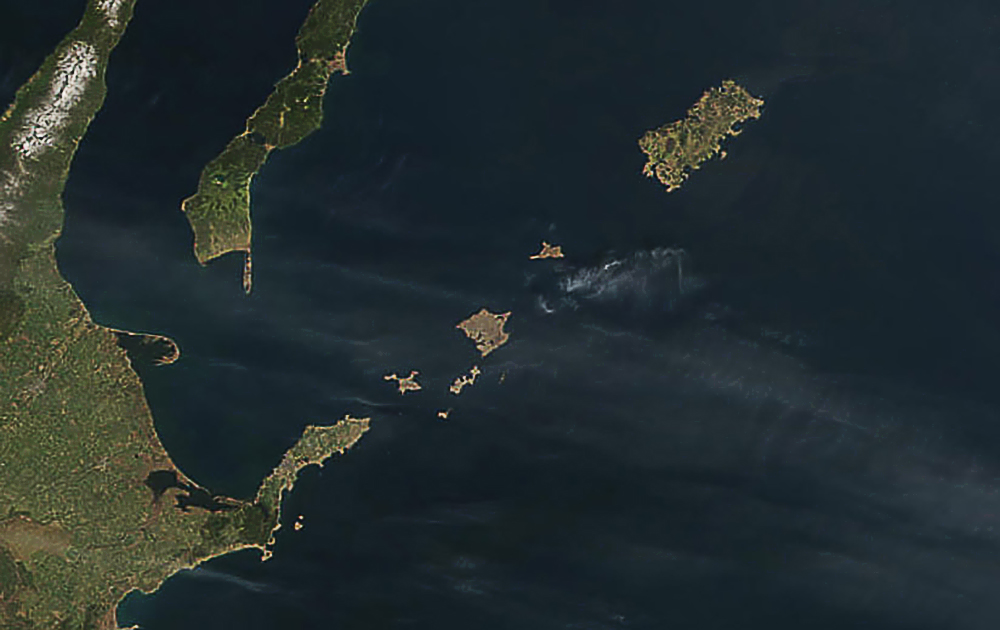 Habomai islands, Russia, NASA Satellite image